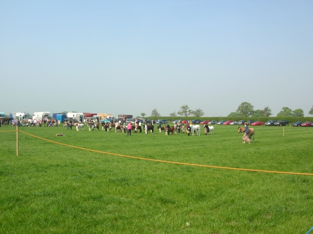 Gymkhana at Raskelf show This equestrian based country show was taking place close to Raskelf.